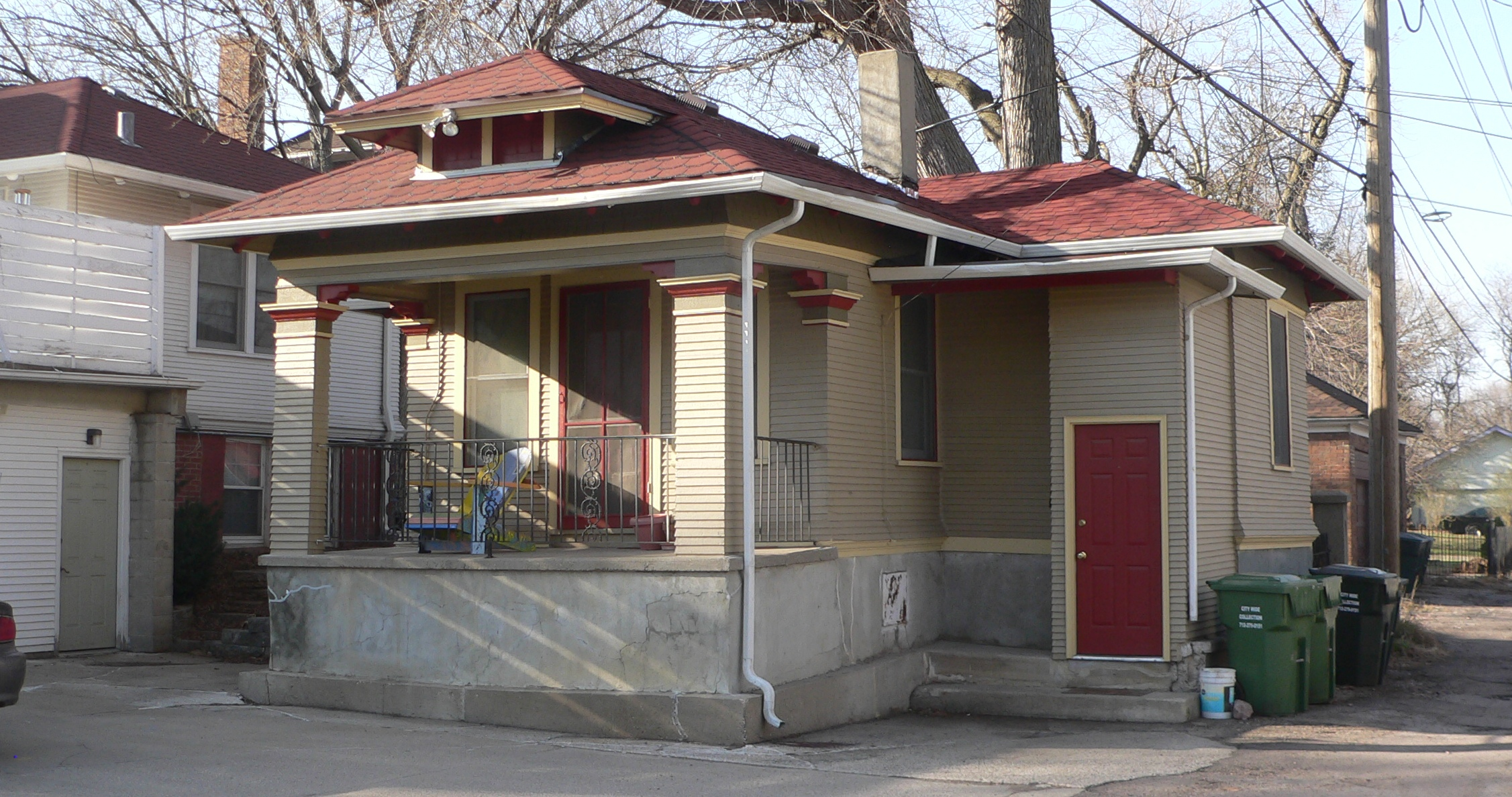 Maid cottage behind (east of) James P. Newton house, located at 2312 Nebraska Street in Sioux City, Iowa: seen from the southeast.